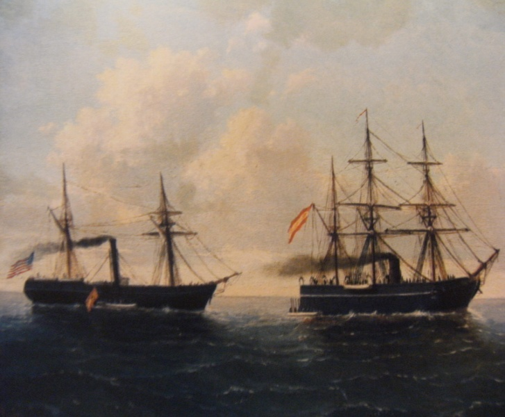 Capture of the North American steamer Virginius by the Spanish corvette Tornado (October 31, 1873)